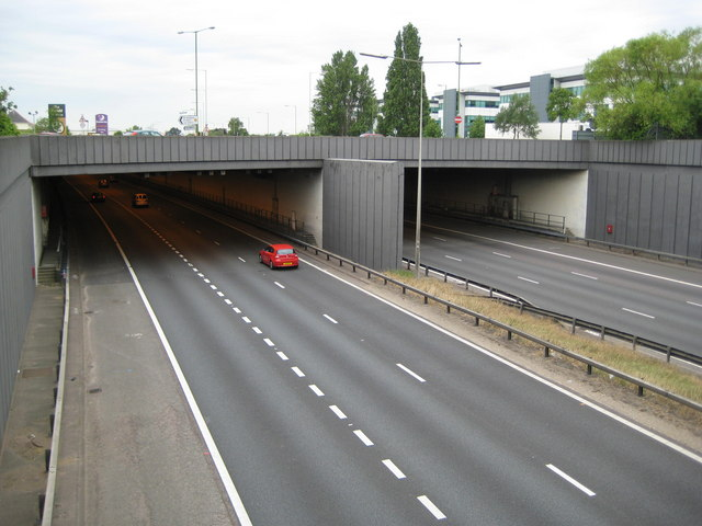 A1 (M) Hatfield Tunnel These are the northern portals of the 1150 metre long cut-and-cover tunnel that was opened in 1986, viewed from the pedestrian bridge just to the north.